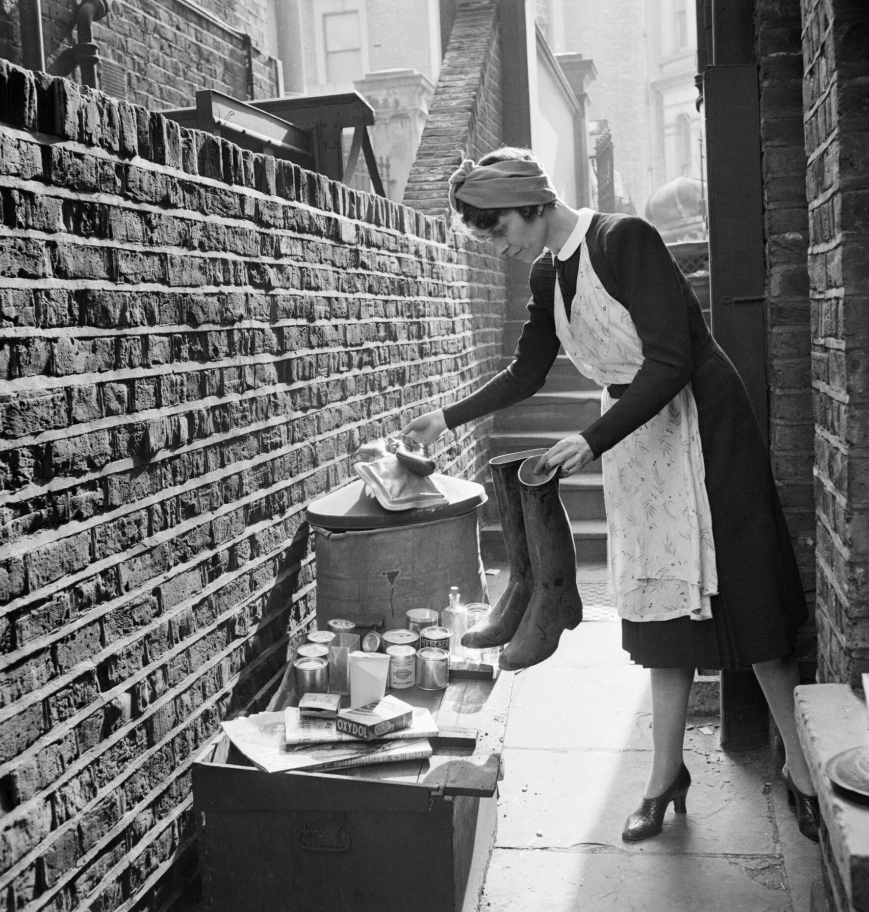 A British housewife puts out items for salvage during 1942. A housewife puts a pair of old Wellington boots and a rubber hot water bottle out for salvage. Also on the pile to be collected by the salvage van are tins, paper and glass.